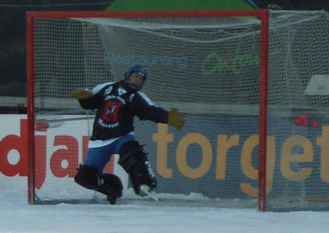 Kirill Chvalko during Bandy World Cup 2007